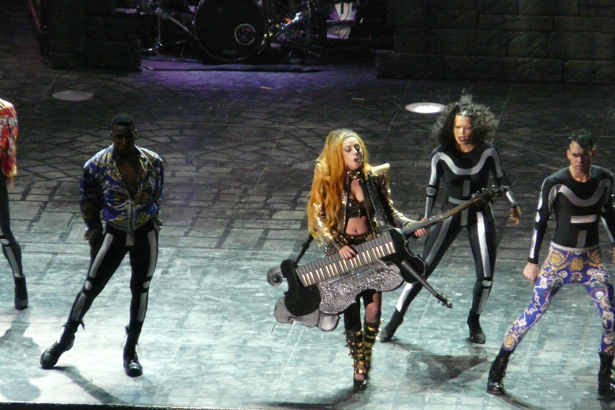 Lady Gaga performing "Marry the Night" at The Born This Way Ball Tour in Manila.